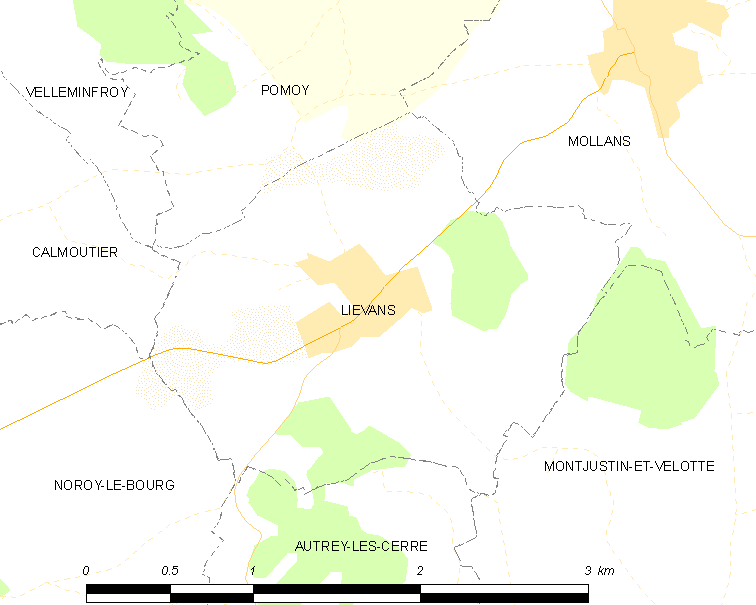 Map of French municipality